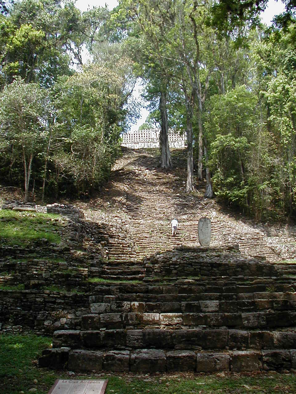 Temple 33, Maya ruins at Yaxchilan Jami Dwyer